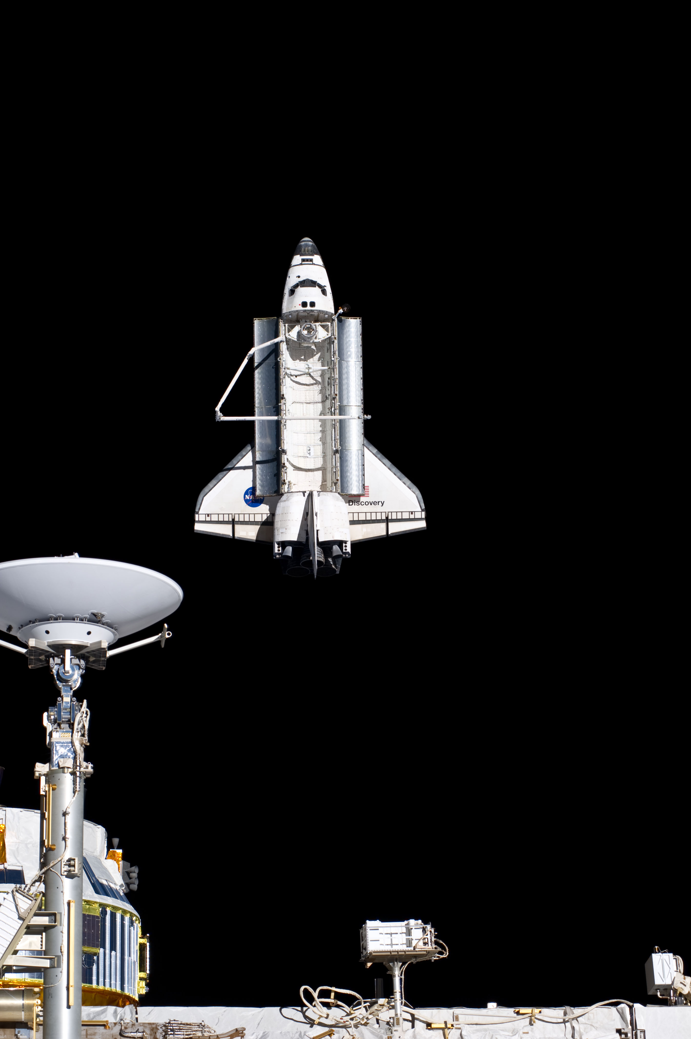 Backdropped against the blackness of space, Discovery is seen from the International Space Station as the two orbital spacecraft accomplish their relative separation on March 7 after an aggregate of 12 astronauts and cosmonauts worked together for over a week. During a post undocking fly-around, the crew members aboard the two spacecraft collected a series of photos of each other's vehicle.